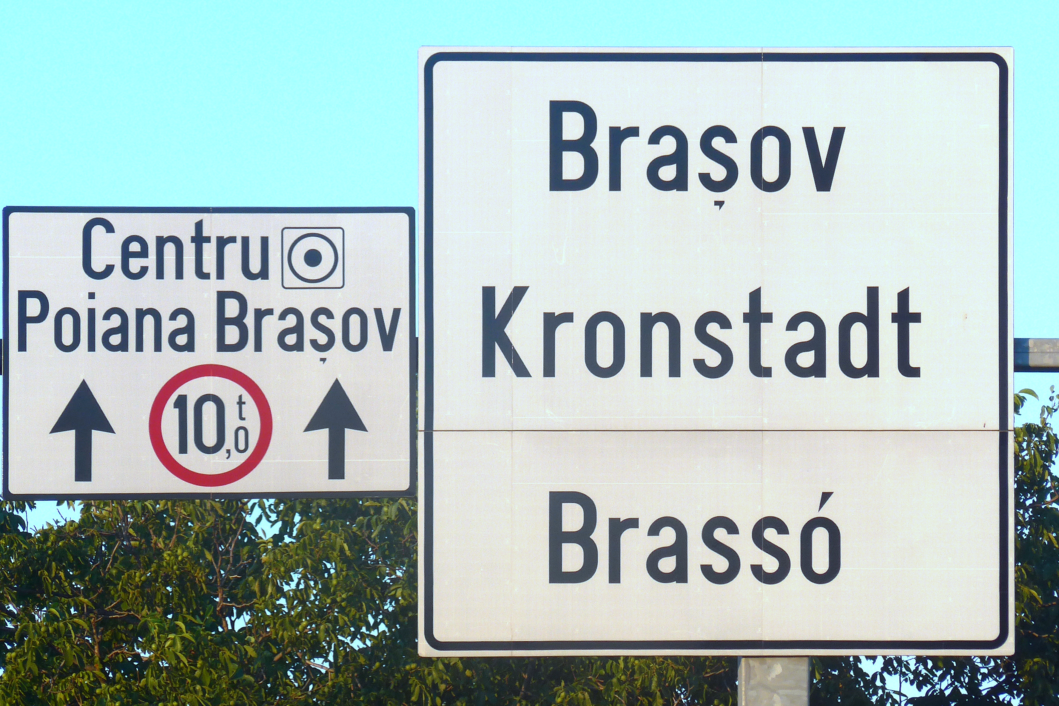 Official trilingual town sign of Brasov/Kronstadt in Romania